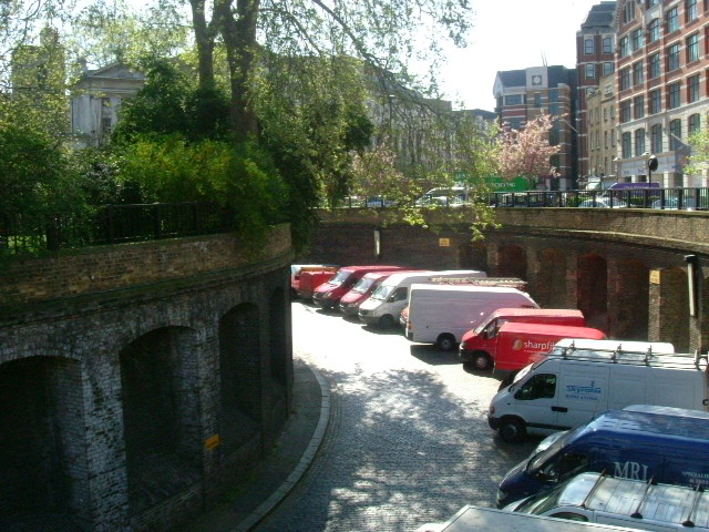 Smithfield Car Park, EC1 The building on the left through the trees is Barts Hospital. The car park goes round in a spiral to underneath Smithfield market, and in a former life was to do with the former railway line that ran there.